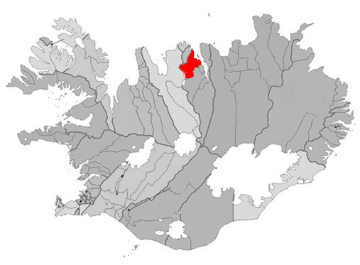 Based on Municipalities of Iceland.png.